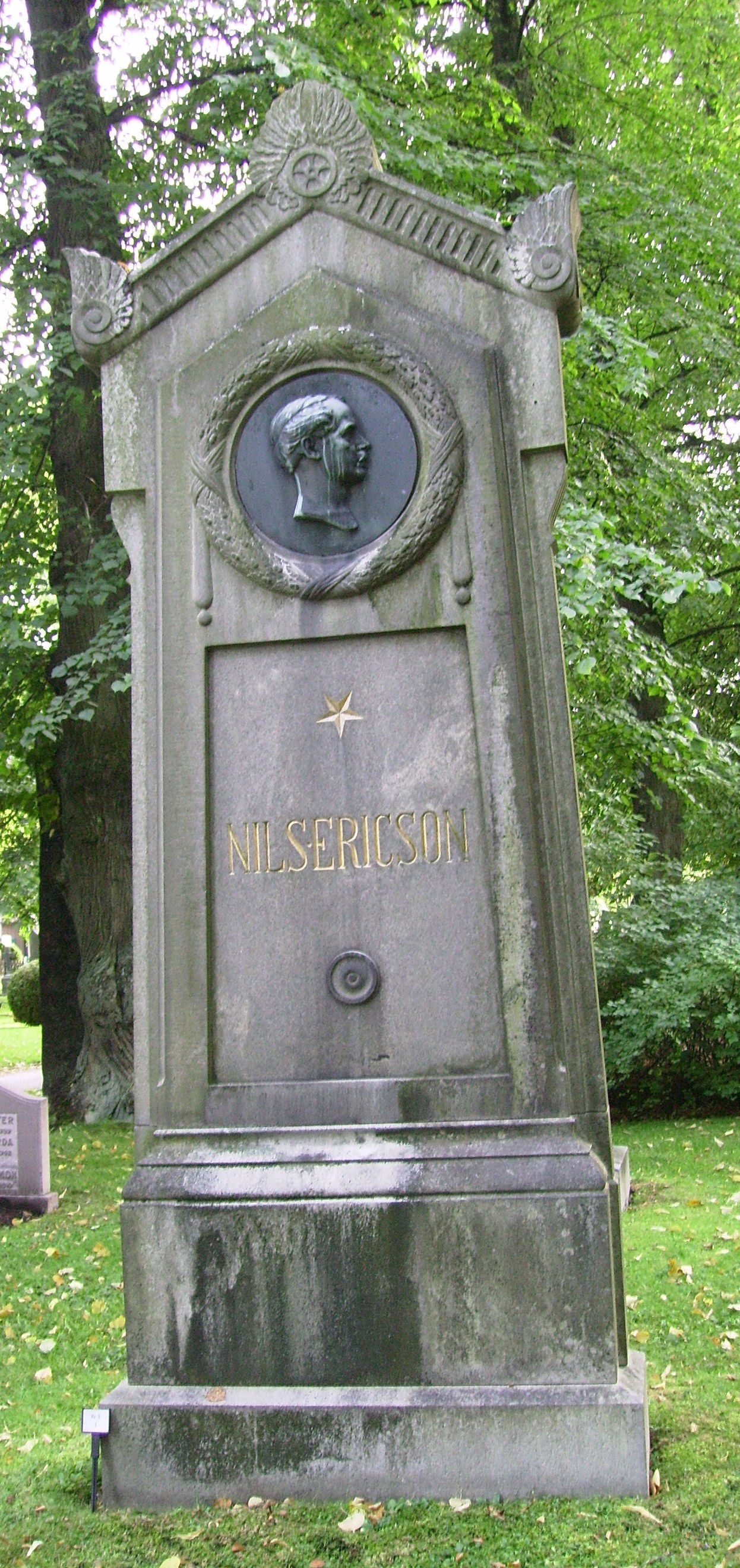 Picture of Nils Ericson's grave at Norra begravningsplatsen in Solna